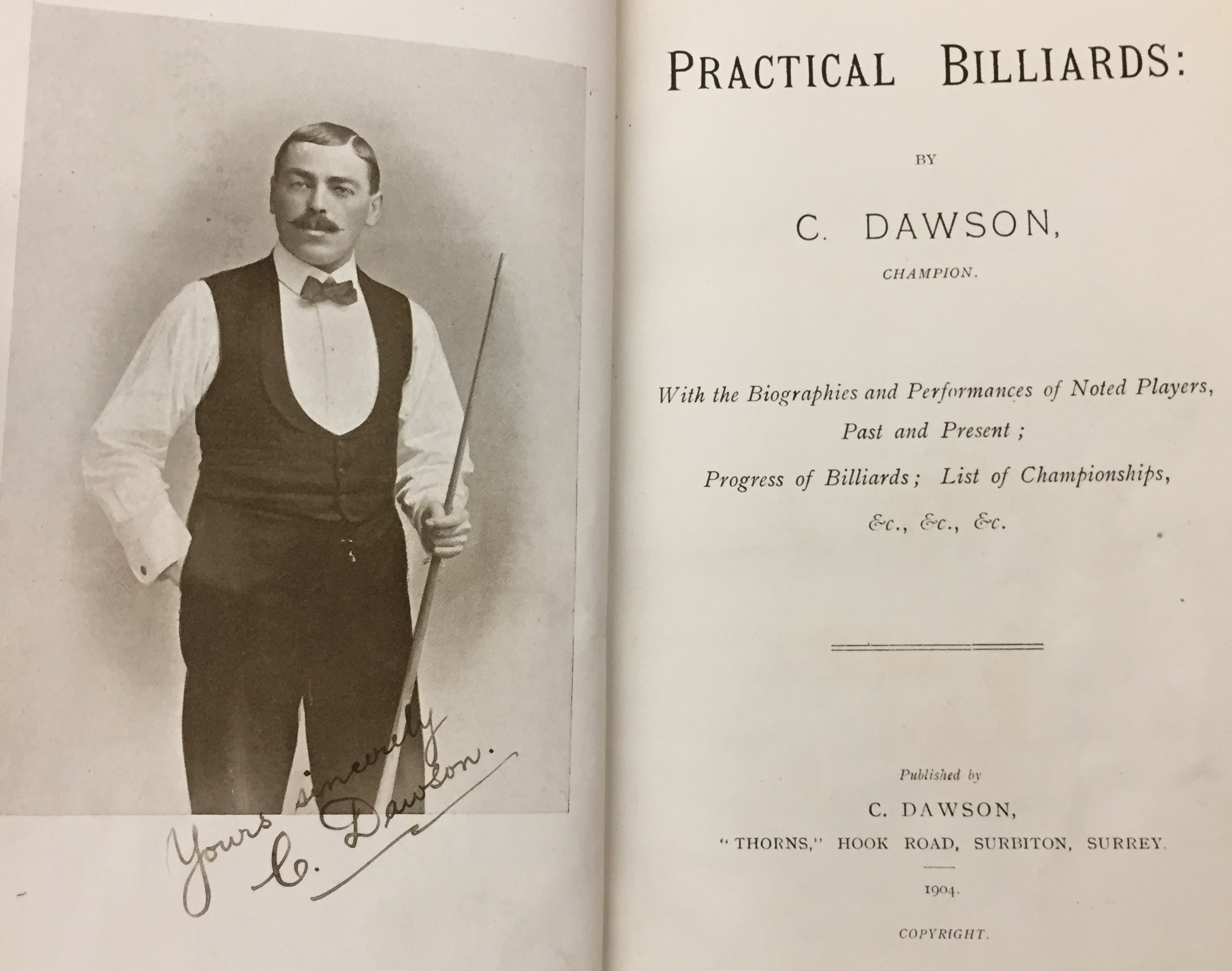 Title page and portrait of Charles Dawson from his book Practical Billiards (1904)